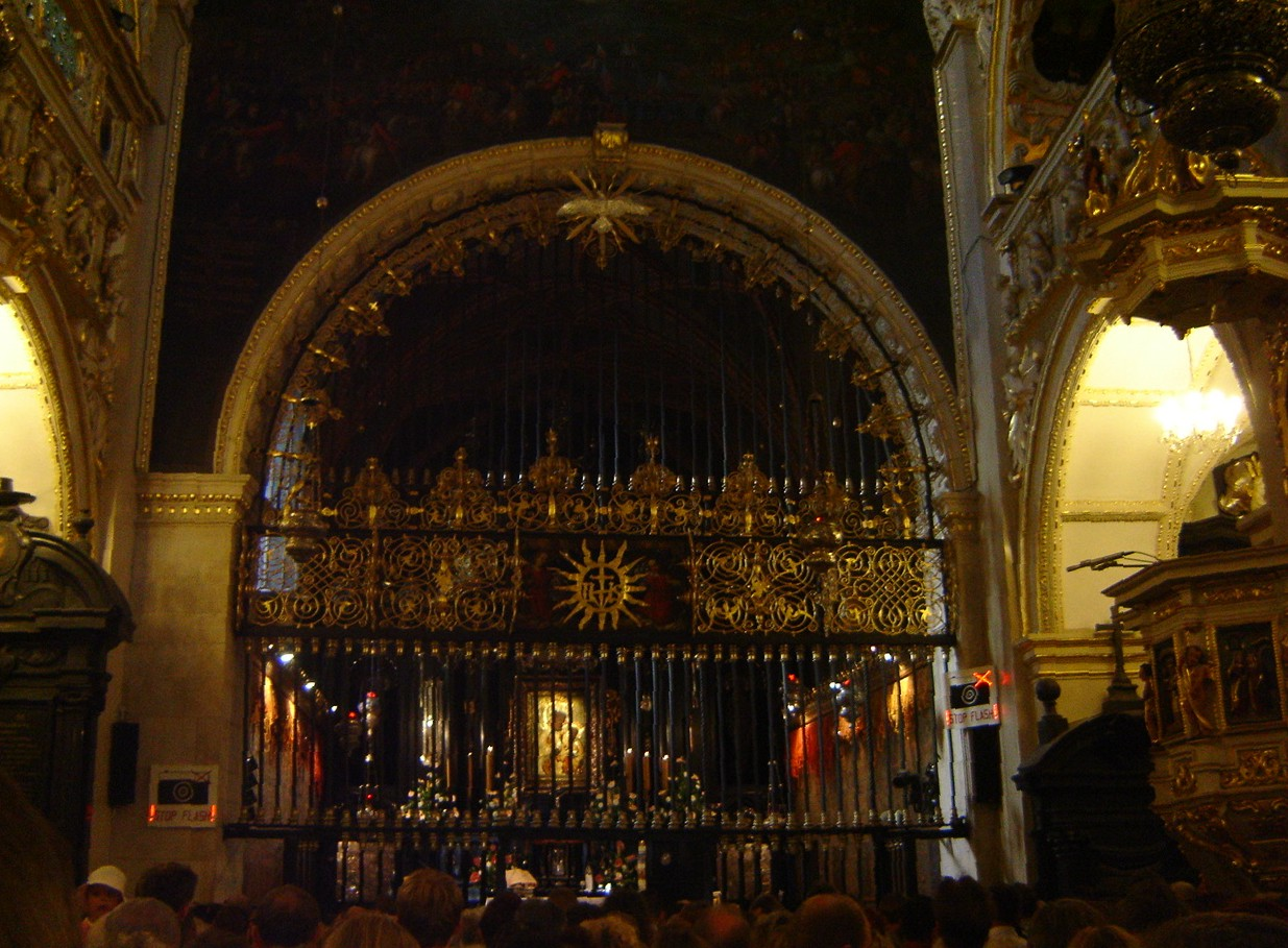 Chapel of Our Lady of Częstochowa